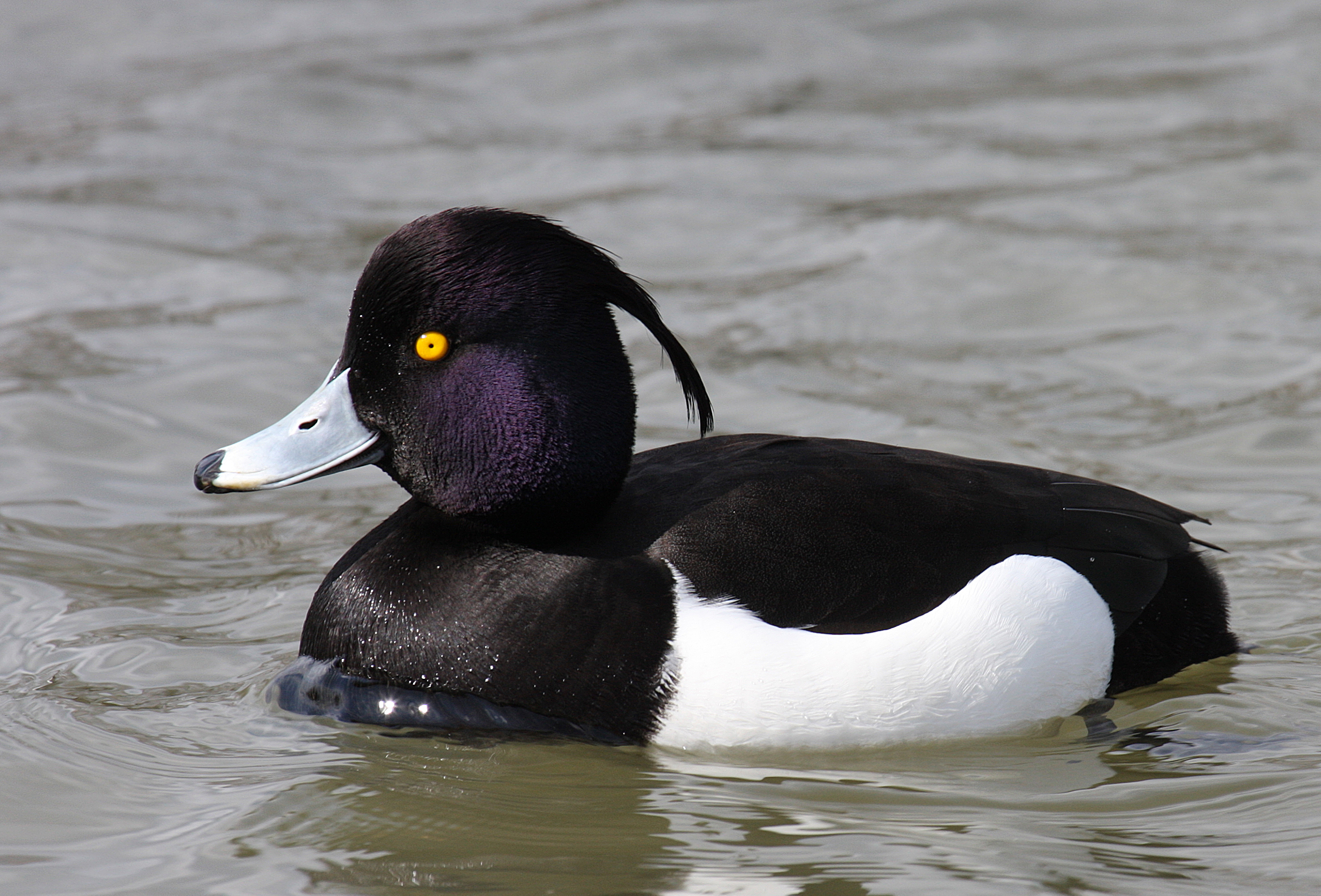 male Tufted Duck, Wohrasandfang, Kirchhain, Germany